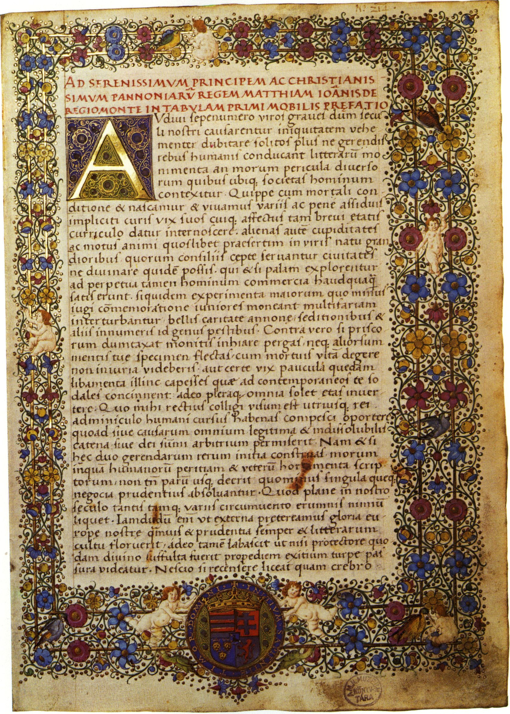 Regiomontanus, “Canones LXIII” in a manuscript from the library of king Matthias Corvinus, to whom this work on the motion of the fixed stars is dedicated. Script: Humanist Rotunda, 15th century (before 1469). Budapest, Széchényi National Library, Cod. Lat. 412, fol. 1r.